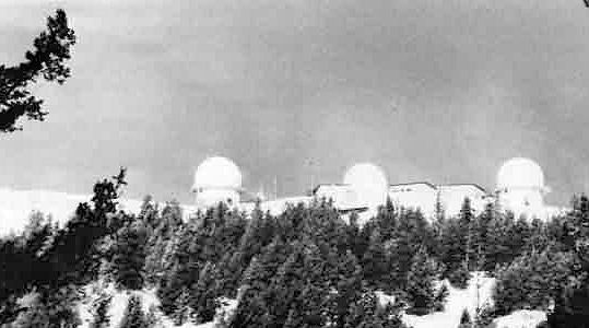 Radomes of CFS Kamloops, British Columbia